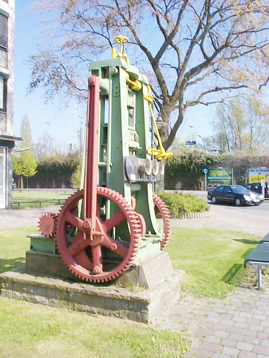 Pot-press, sample near the station in Ahlen, Germany.